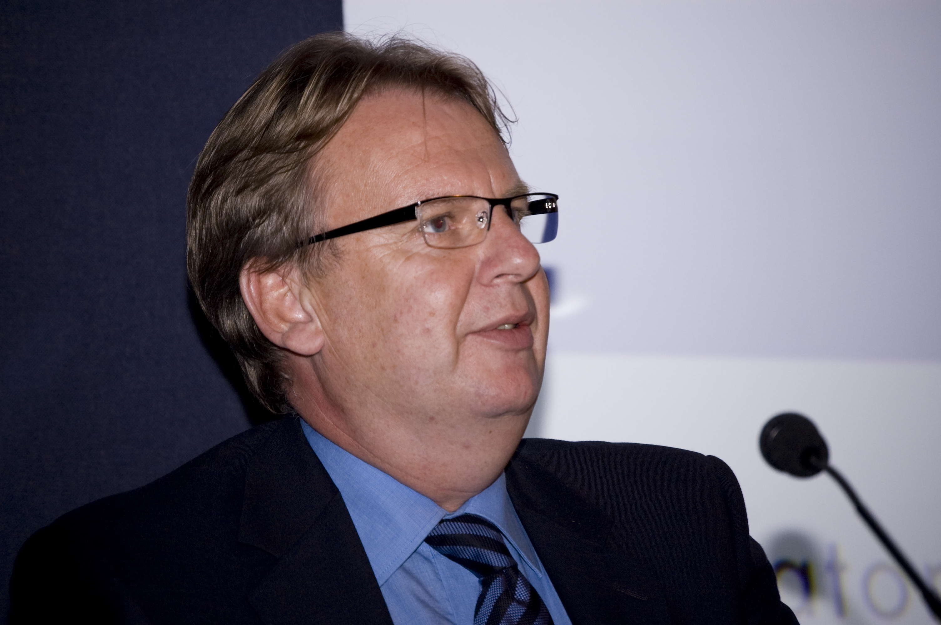 The Welsh Assembly Minister for Heritage, Rhodri Glyn Thomas appearing at S4C25 conference Rhodri Glyn Thomas.